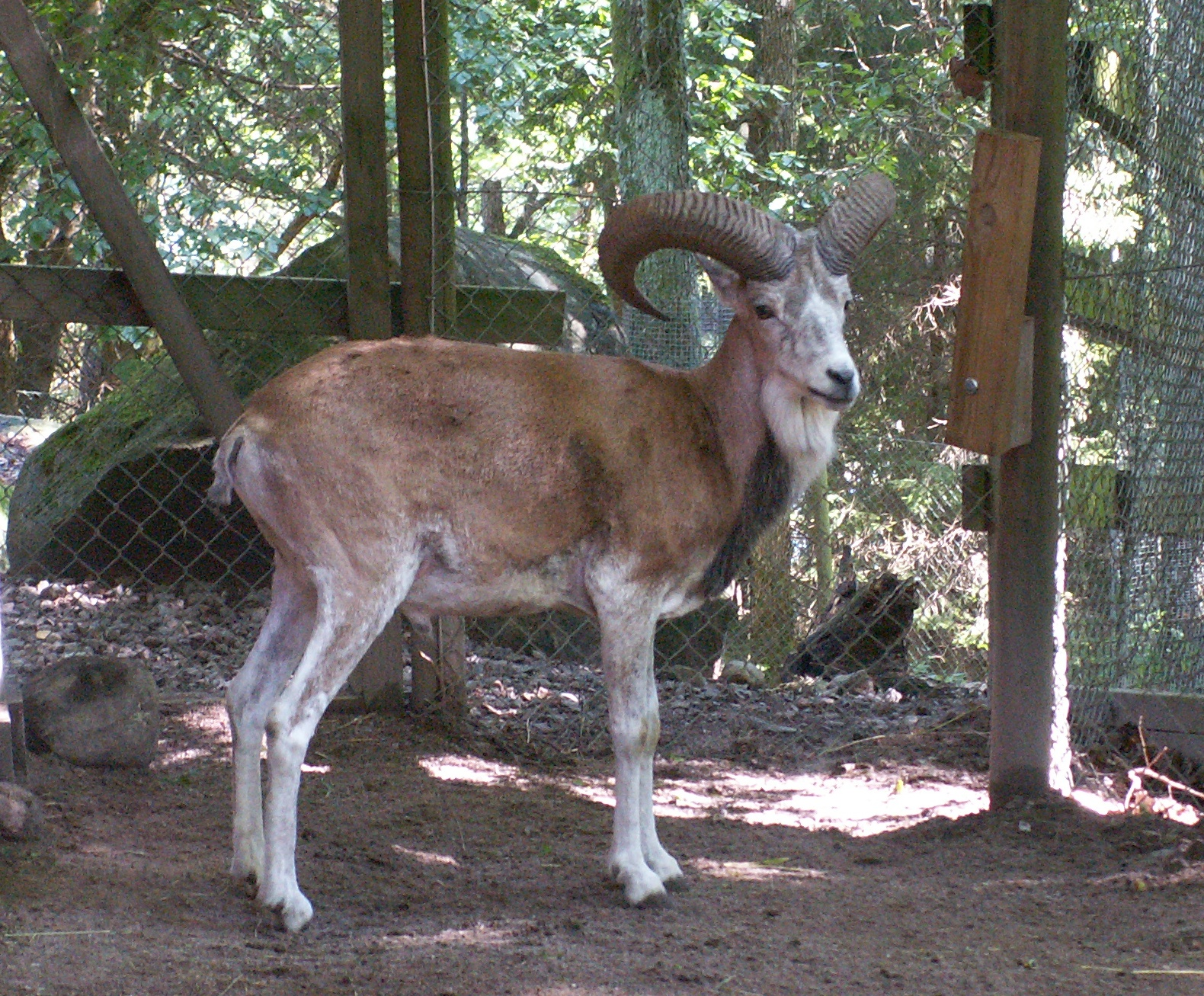 Bukhara Urial (Ovis orientalis bochariensis) at Nordens Ark, Sweden